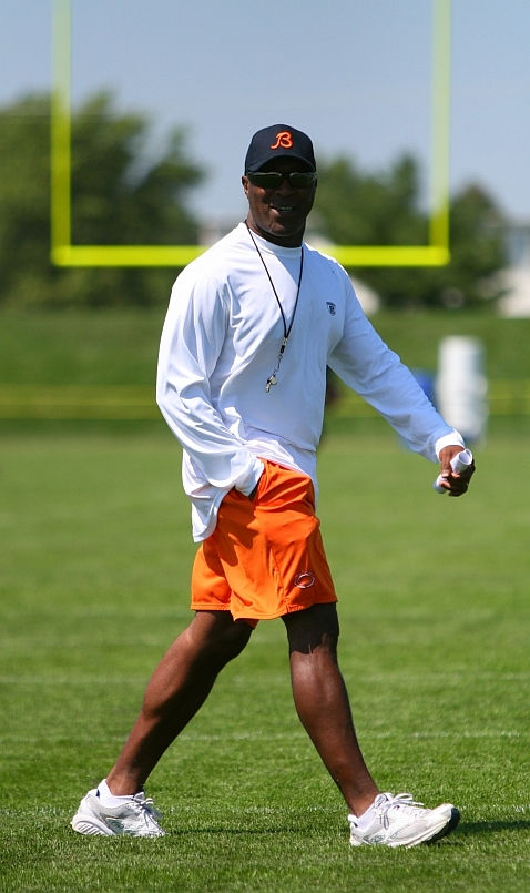 Lovie Smith on July 29, 2007 at the Chicago Bears training camp in Bourbonnais, Illinois.